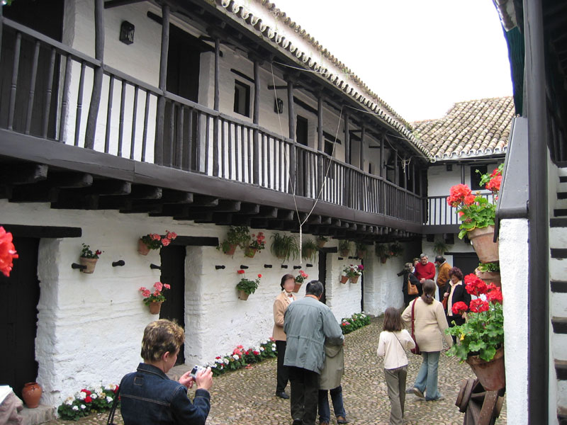 Patio of Posada del Potro, in Córdoba (Spain).